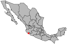 Location of Manzanillo, Colima, Mexico